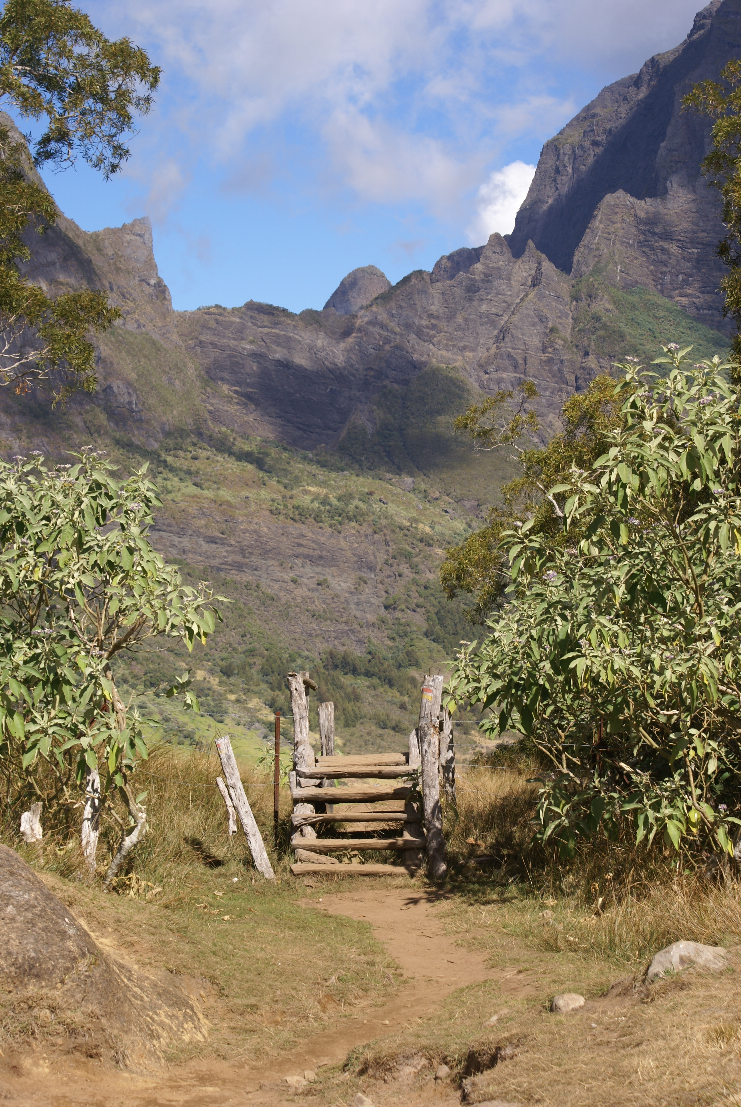 On the path between Plaine des Tamarins and Marla, in the cirque of Mafate, on Réunion island